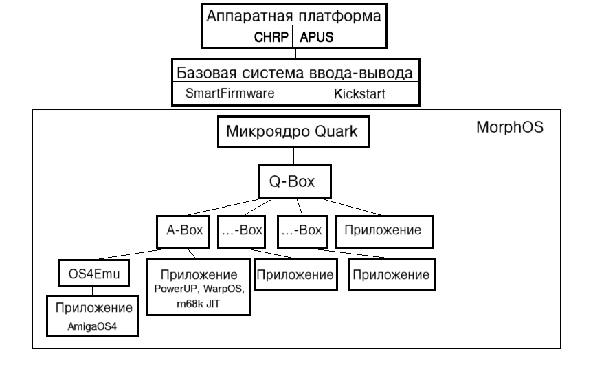 MorphOS structure